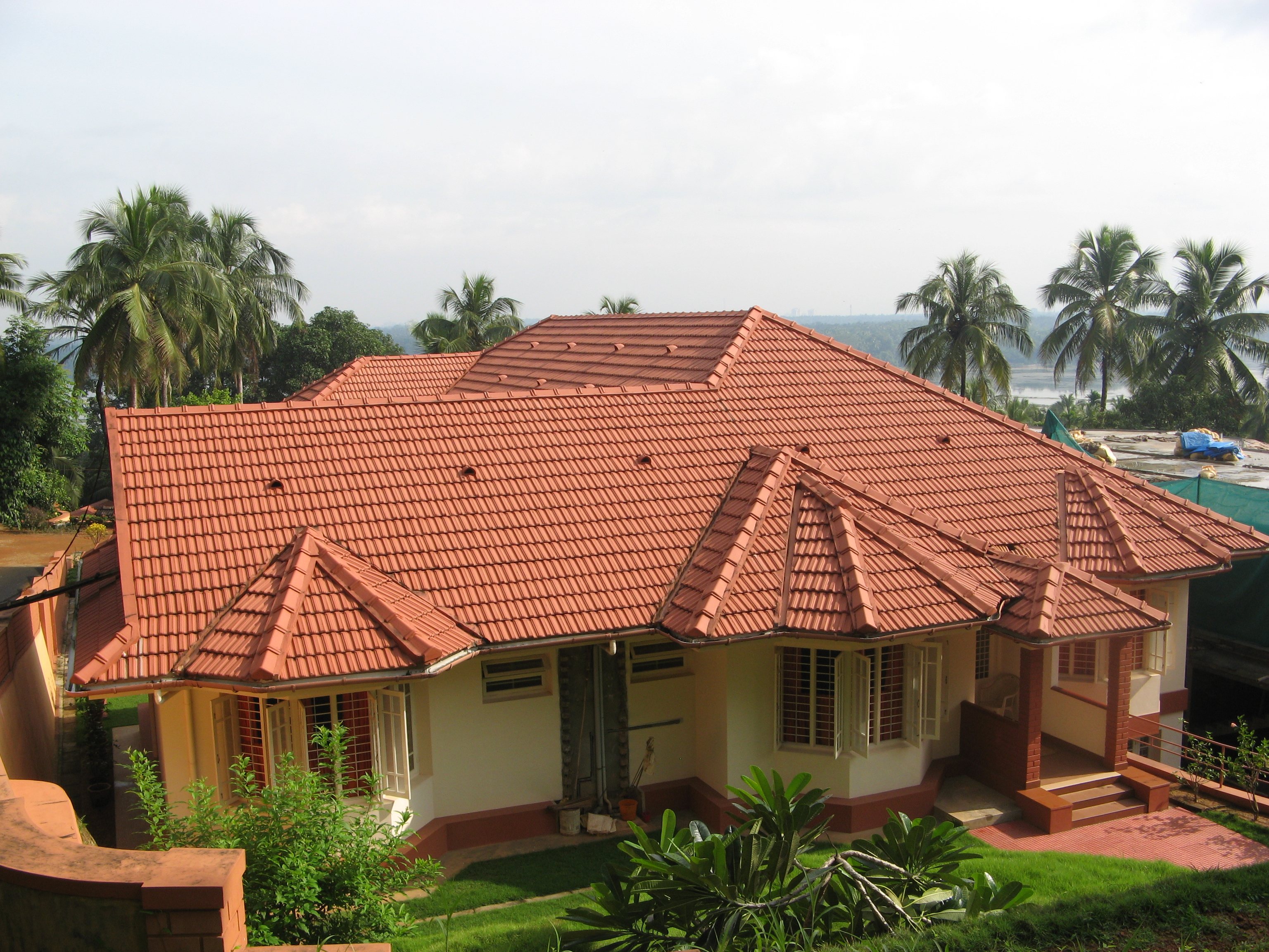 Prajnana Dham